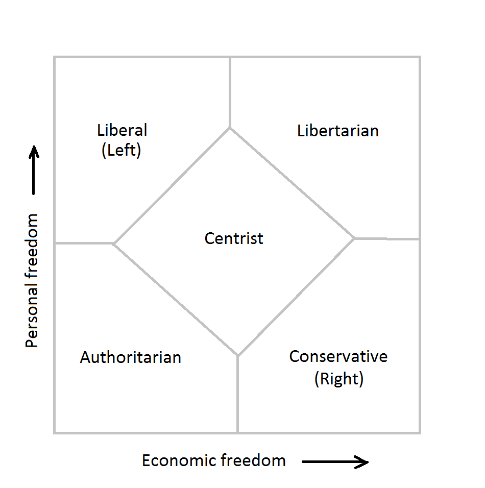 Simplified Nolan chart